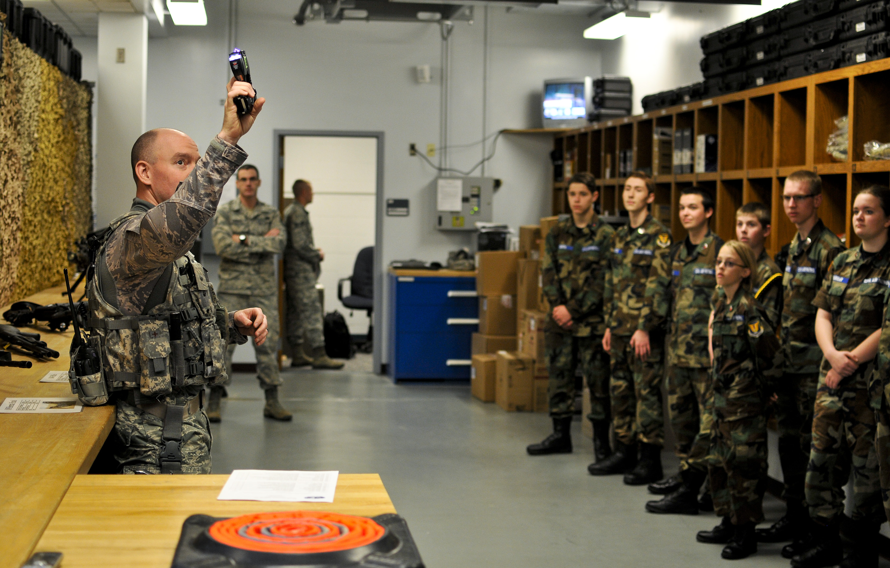 U.S. Air Force Master Sgt. Blake A. Pumphrey, head of mobility and resources at the 182nd Security Forces Squadron, demonstrates a Taser X26 spark test for Civil Air Patrol cadets at the 182nd Airlift Wing in Peoria, Ill., May 2, 2015. The Peoria and Bloomington cadets toured the Air National Guard base to learn how various career fields support the wing’s air mobility mission. They also took an orientation flight on a C-130 Hercules during their visit. (U.S. Air National Guard photo by Staff Sgt. Lealan Buehrer/Released)